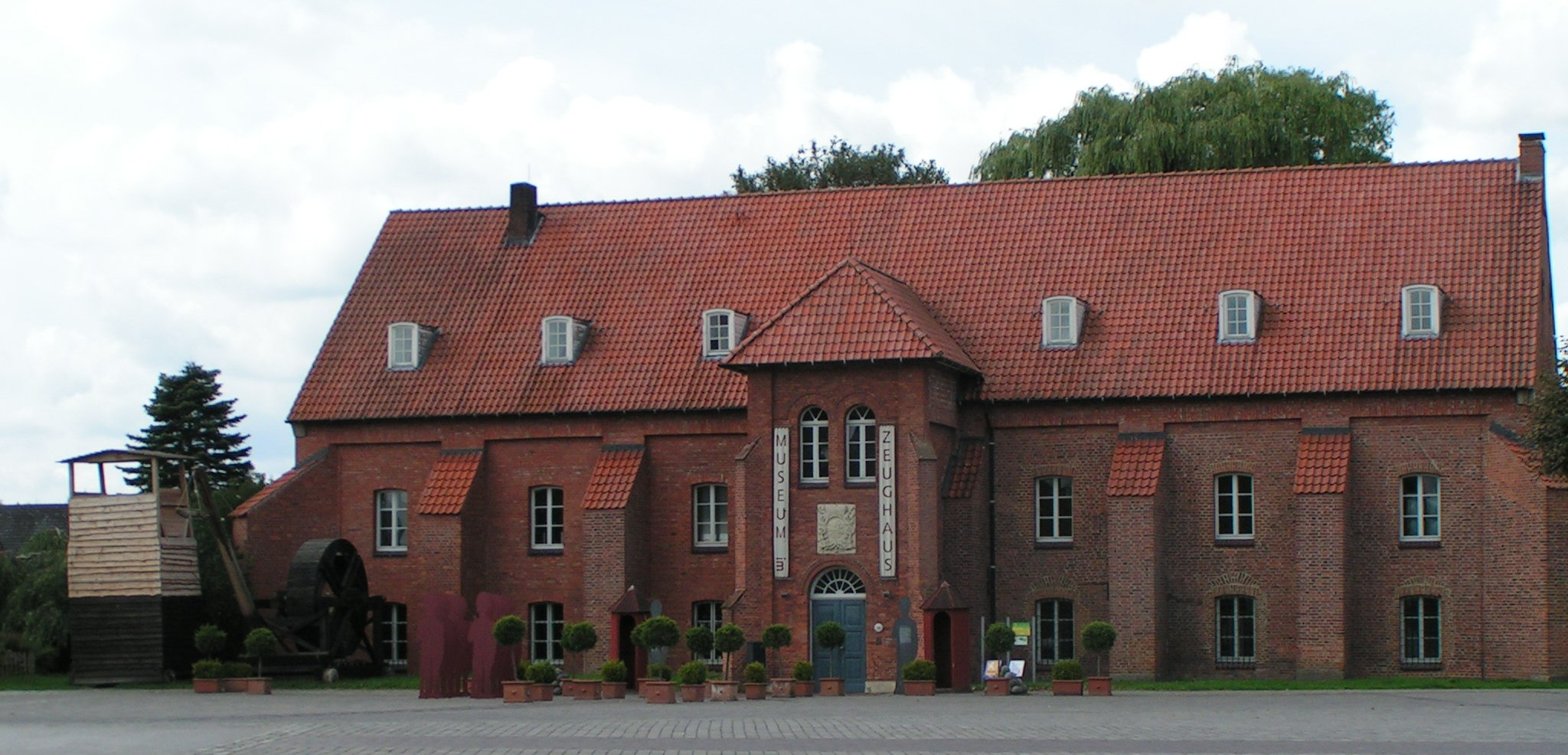 "Zeughaus": Original buildung of the Vechta Citadel, today used as a historical museum